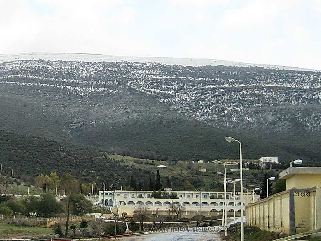 Snow Hammam Essalhine Aures Khenchela